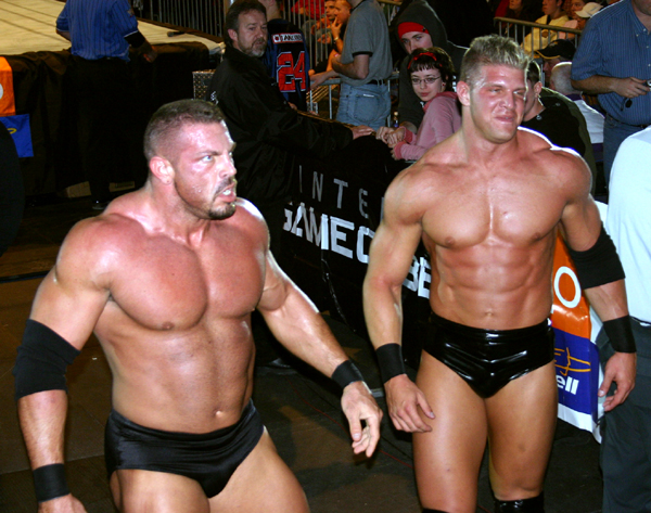 Luther Reigns (real name Matt Wiese) and Mark Jindrak at a WWE house show held in Kitchener, Ontario, Canada on January 15, 2005.